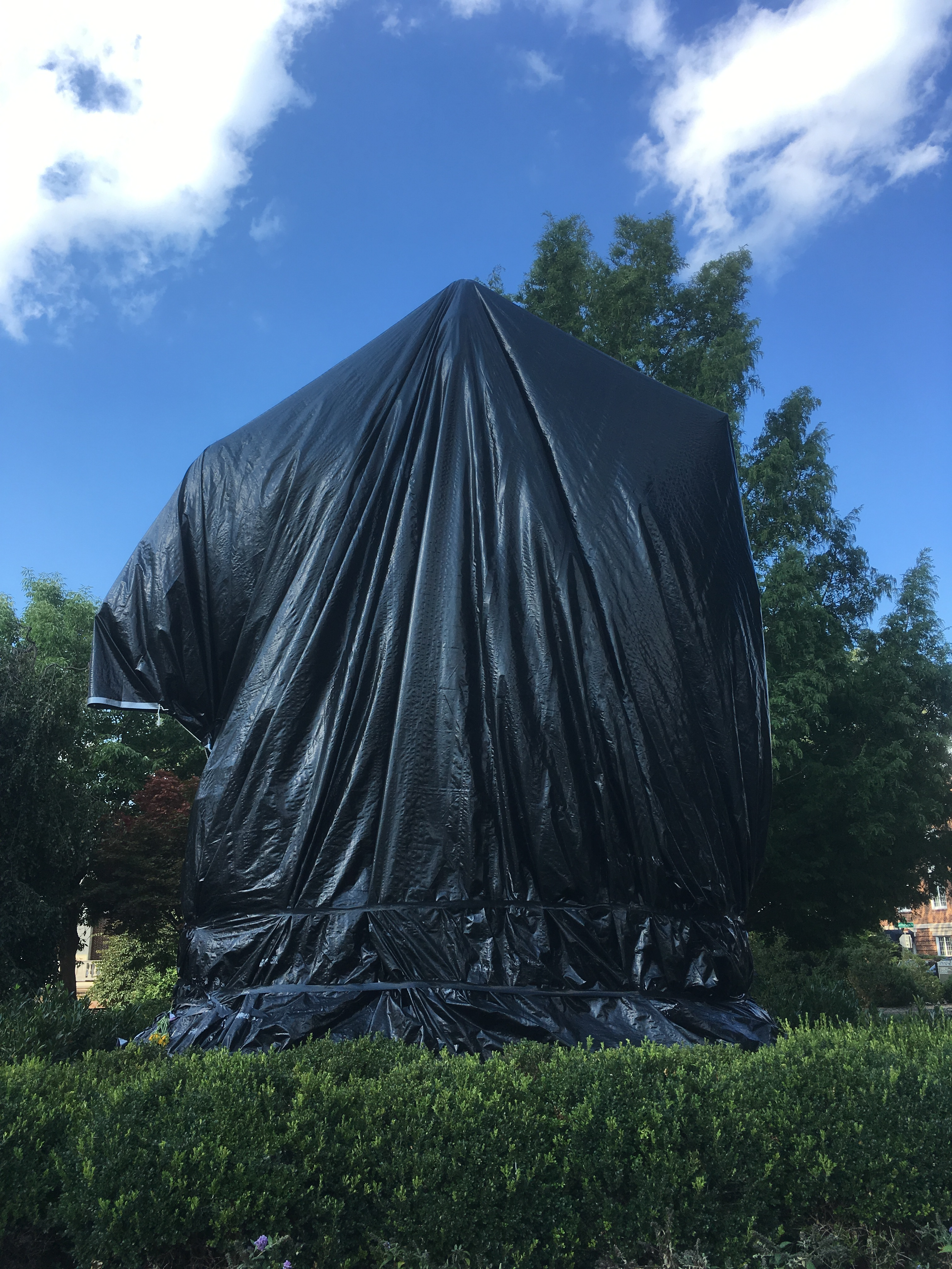 The tarp covering the Robert E. Lee statue at Emancipation Park following the events of the Unite the Right rally, taken the day after the statue was covered.